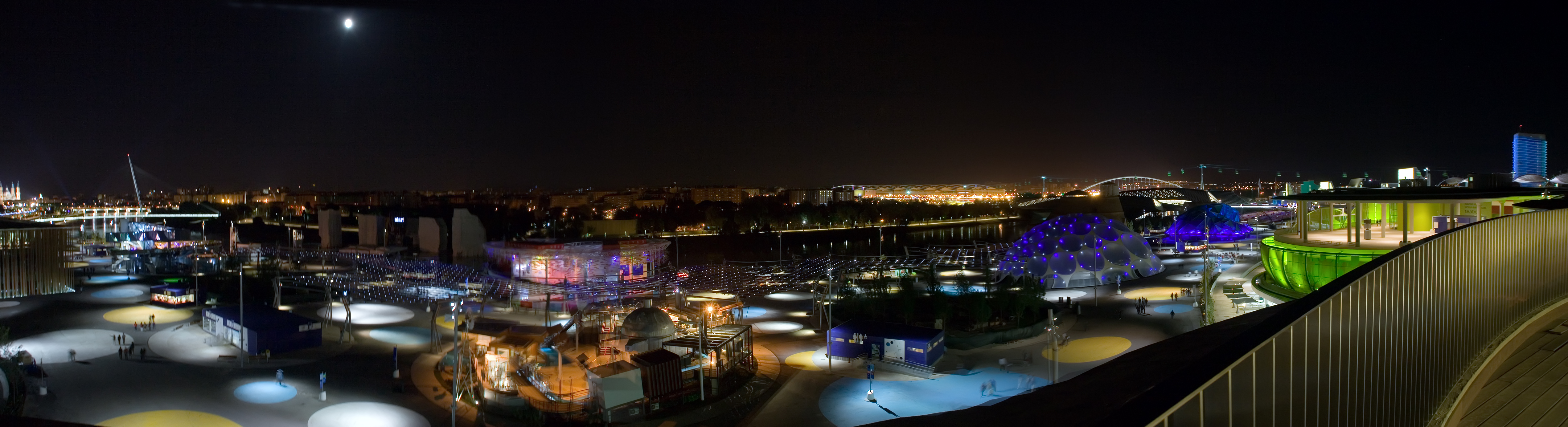 Pano Expo Zaragoza 2008